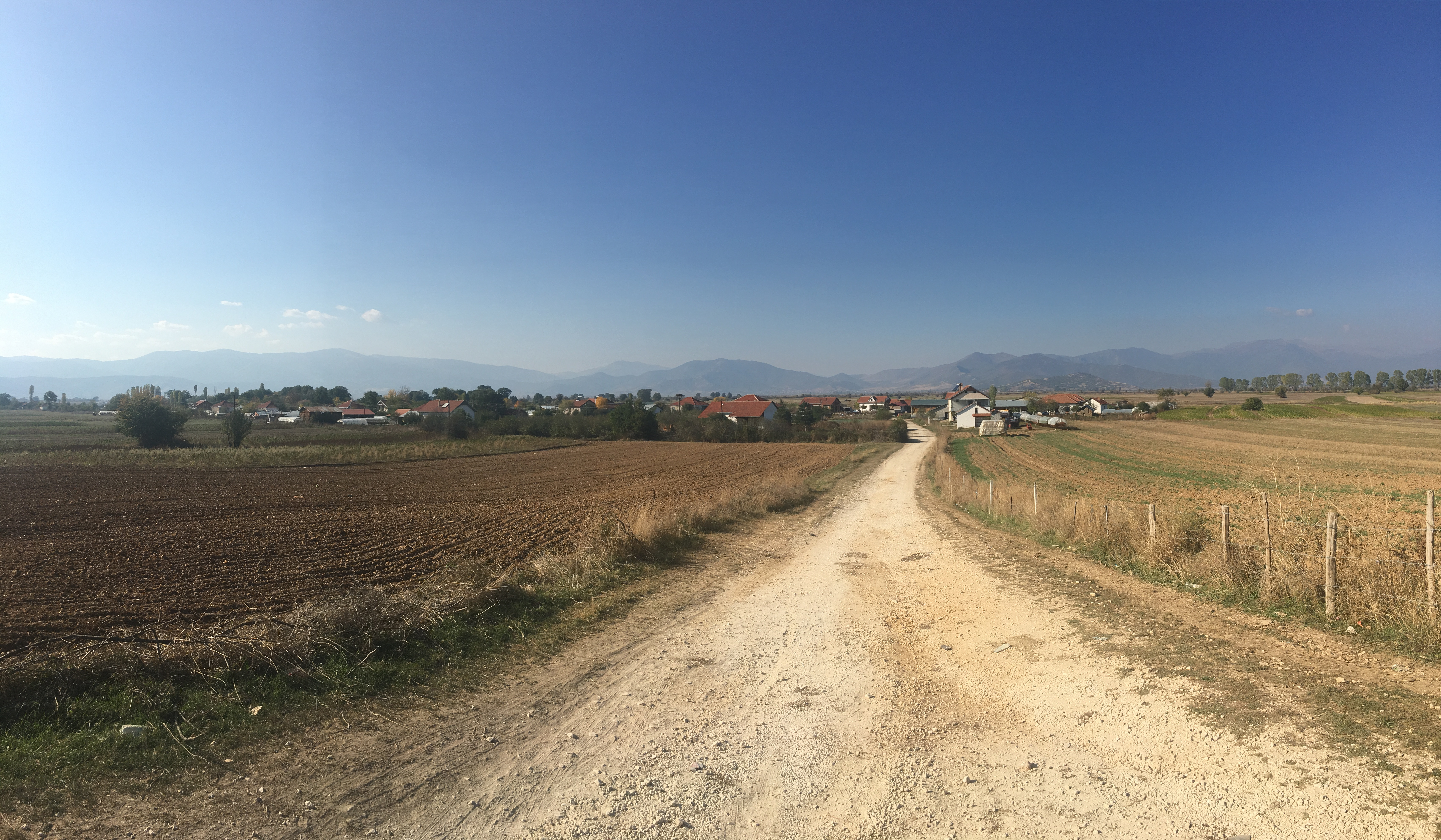 A panoramic view of the village of Belo Pole